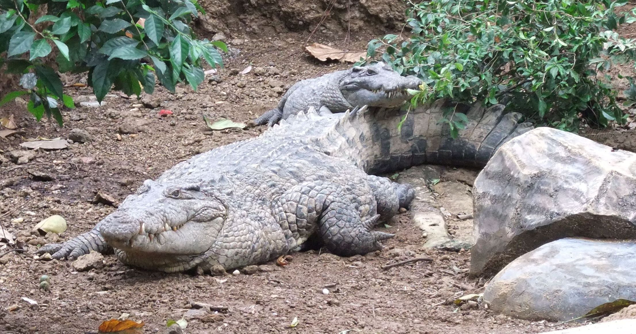 Saltwater Crocodile (Crocodylus novaeguineae), Bandung Zoo, Bandung, West Java, Indonesia